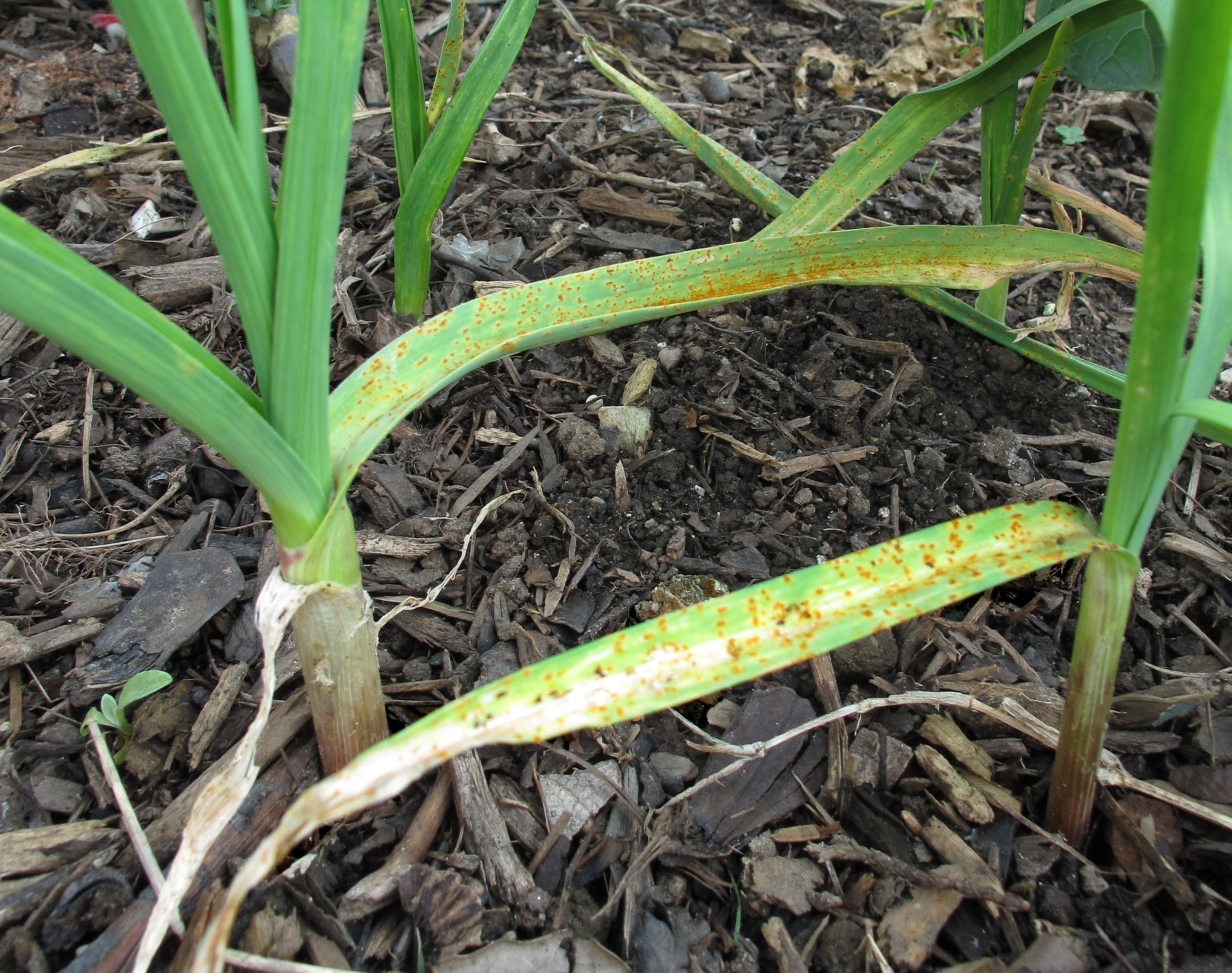 Puccinia (rust) on 9-week-old garlic plants, after record-breaking heavy rains. Garden in Los Angeles, California.